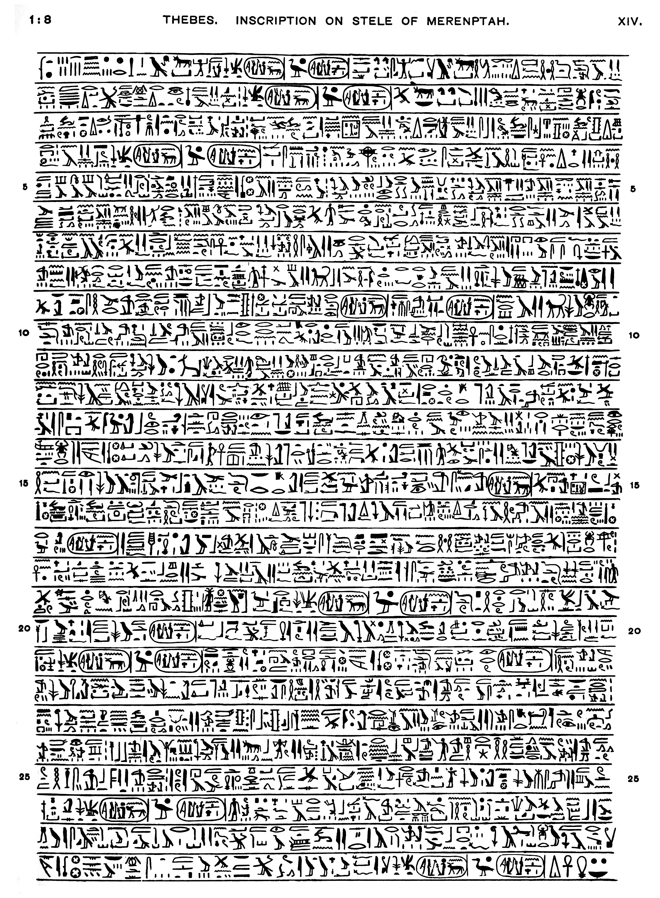 Merenptah Stele (Israel Stele): mirror image of the main part of the inscription (all 28 lines)